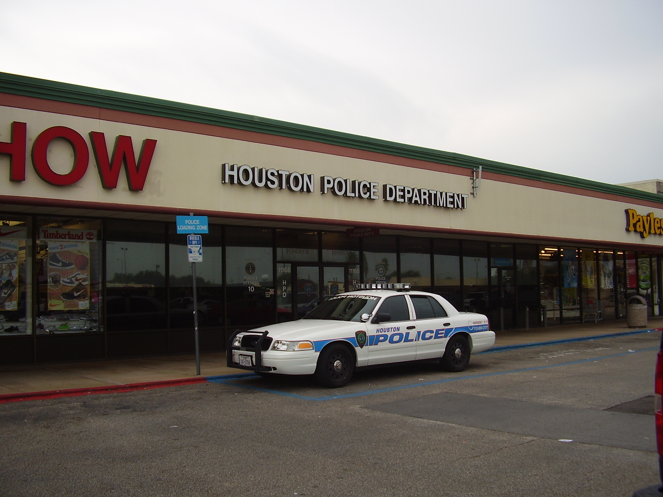 The former Fondren Police Substation